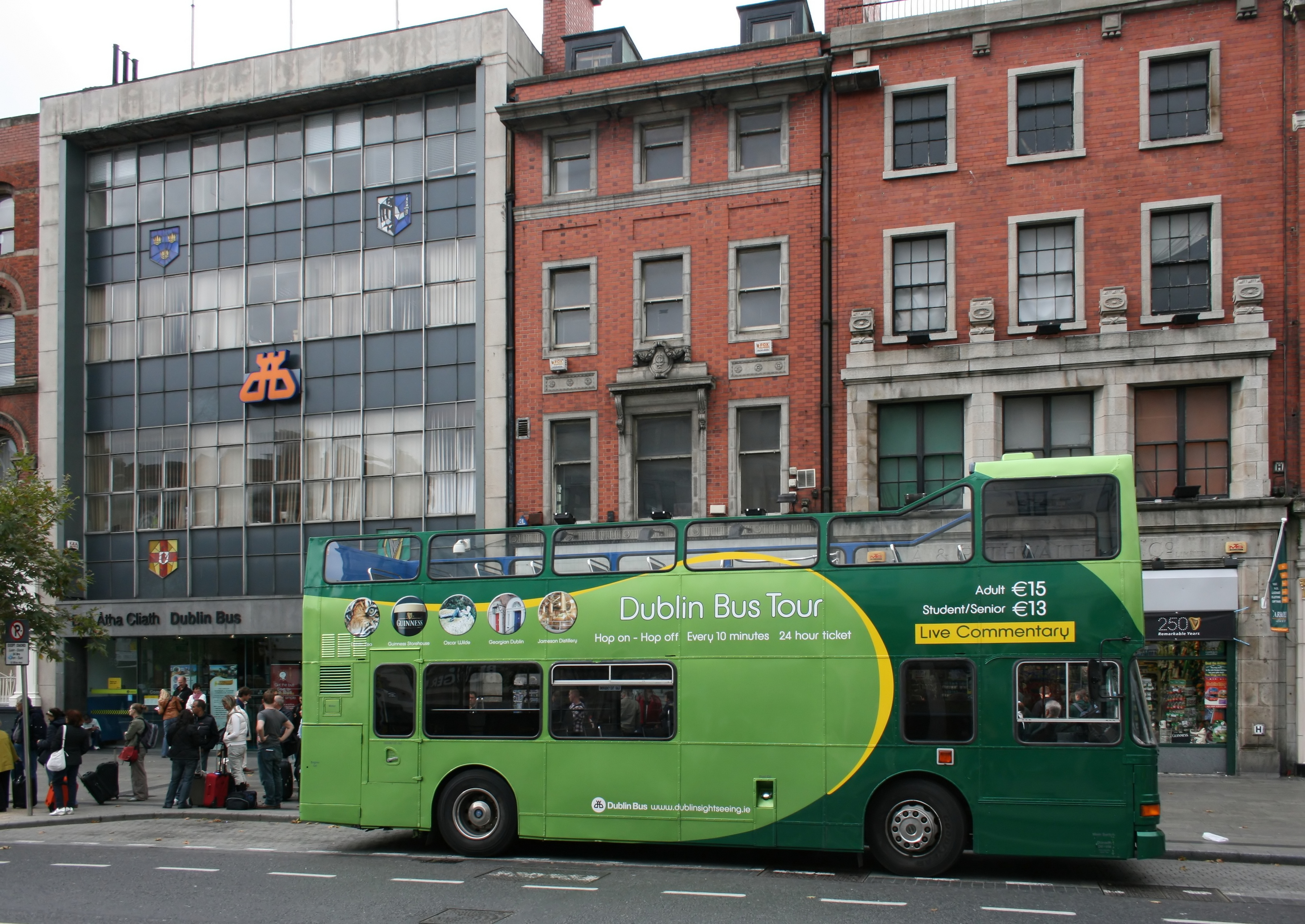 Head Quarter Dublin Bus, 59 Upper O’Connell Street, Dublin, Ireland; in front a Hop on/Hop off-bus for sightseeing tours